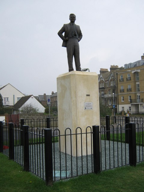 Sir Barnes Neville Wallis Life-size bronze Statute, on green near Eastcliff Parade, Herne Bay, Kent. Near junction of Beacon Hill Road (behind) and Canterbury Road (on right). It is on the Herne Bay Cultural Trail (No4). Sign on plinth reads 'Sir Barnes Neville Wallis 1887-1979 Scientist, engineer and inventor. Most noted for his invention of the bouncing bomb used in the dambuster raids. American Sculptor, Tom White